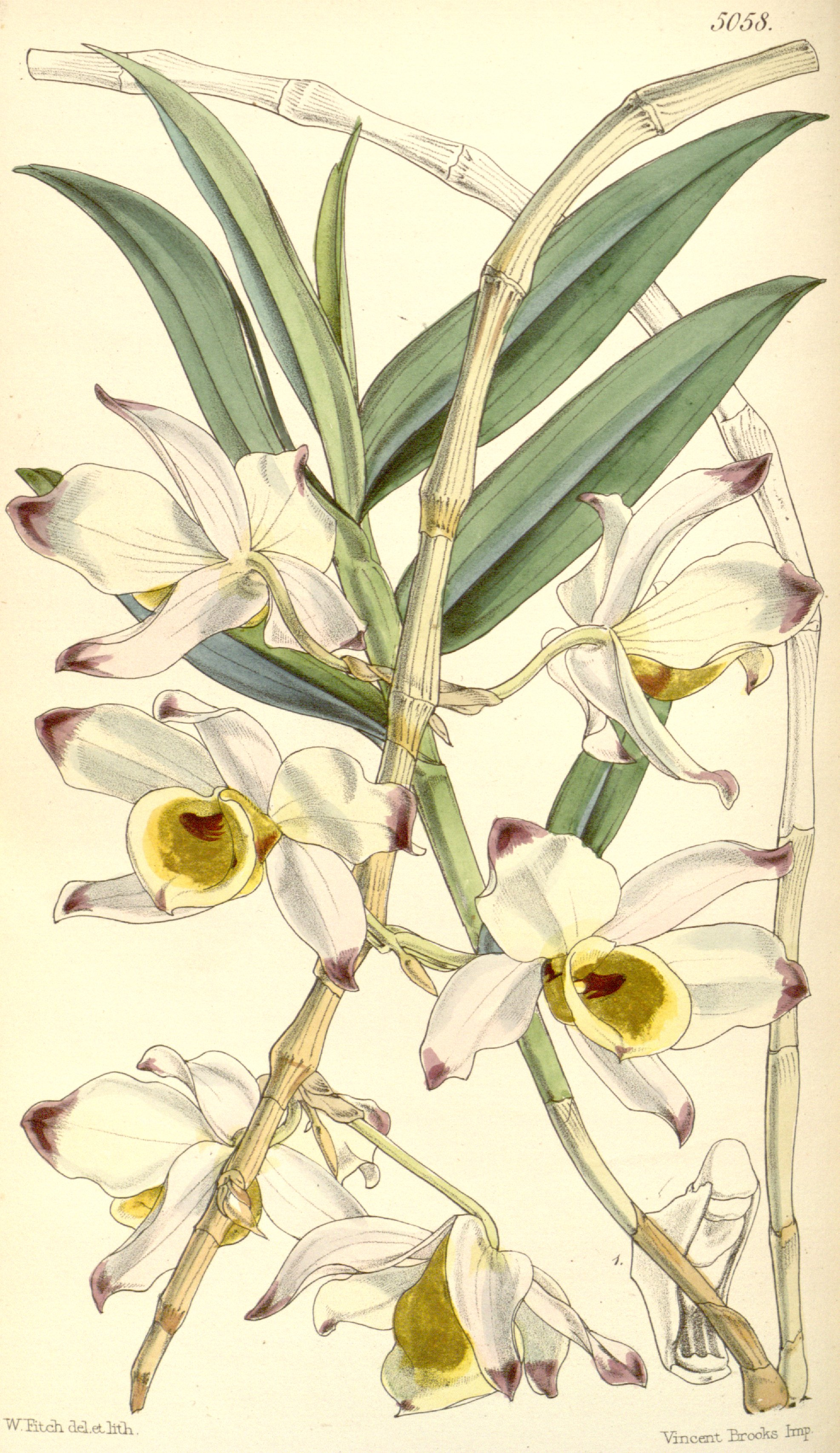 Illustration of Dendrobium falconeri